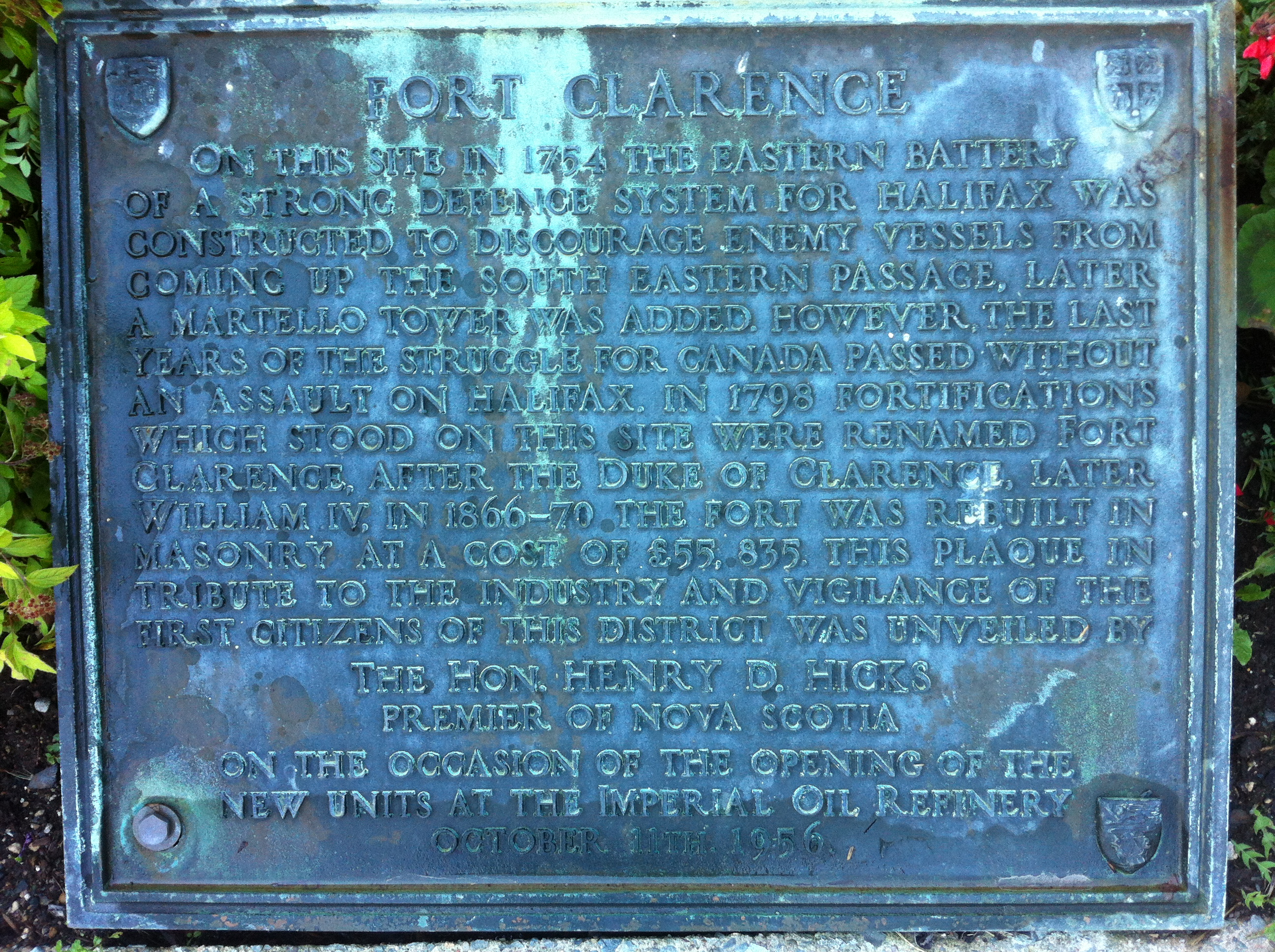 Fort Clarence Plaque, Dartmouth, NovaScotia - Irving Oil Refinery, Main Office